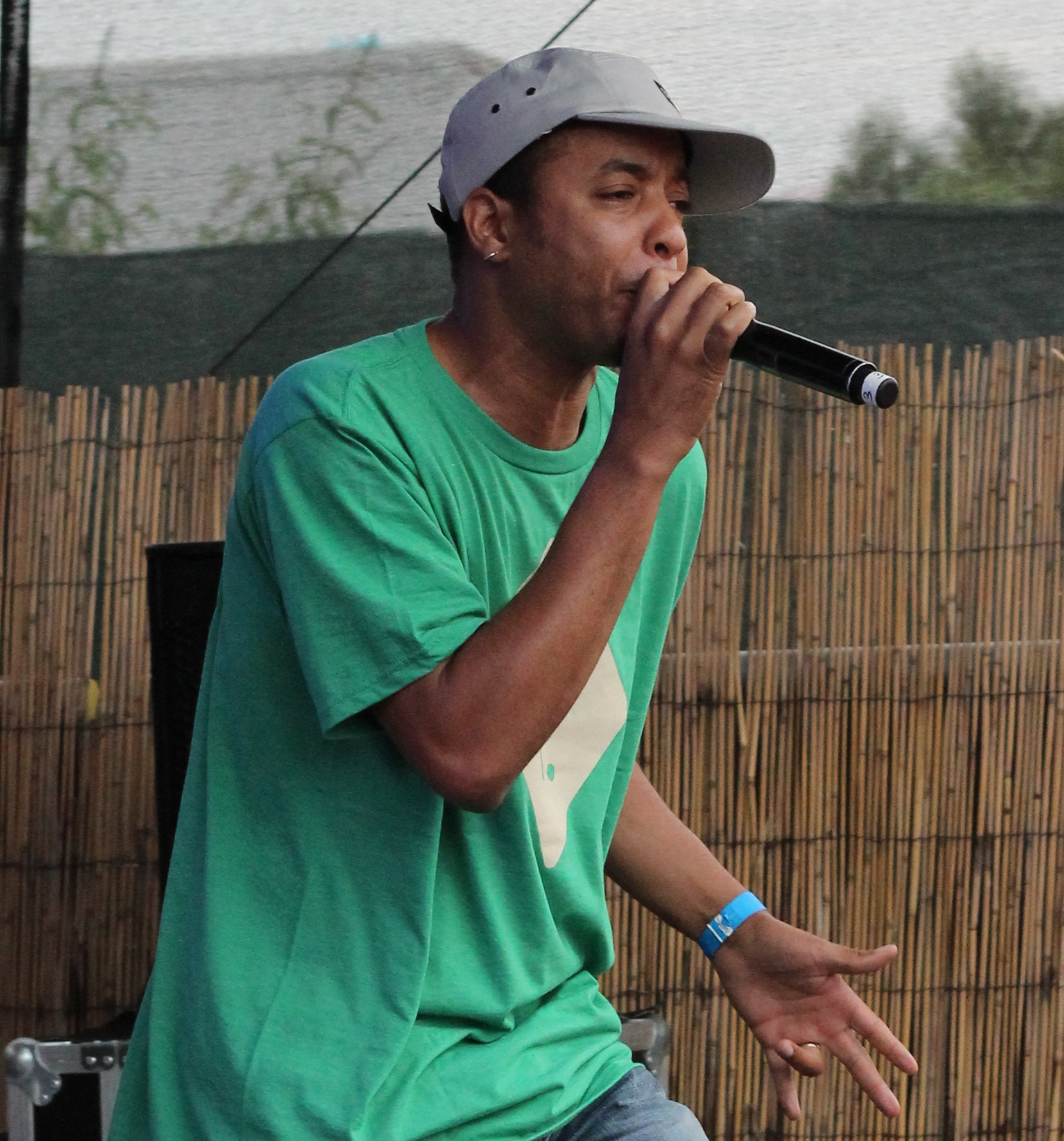 Slim Kid performing at the Live à LaPlage de Glaz'Art in France, Paris in 2013.